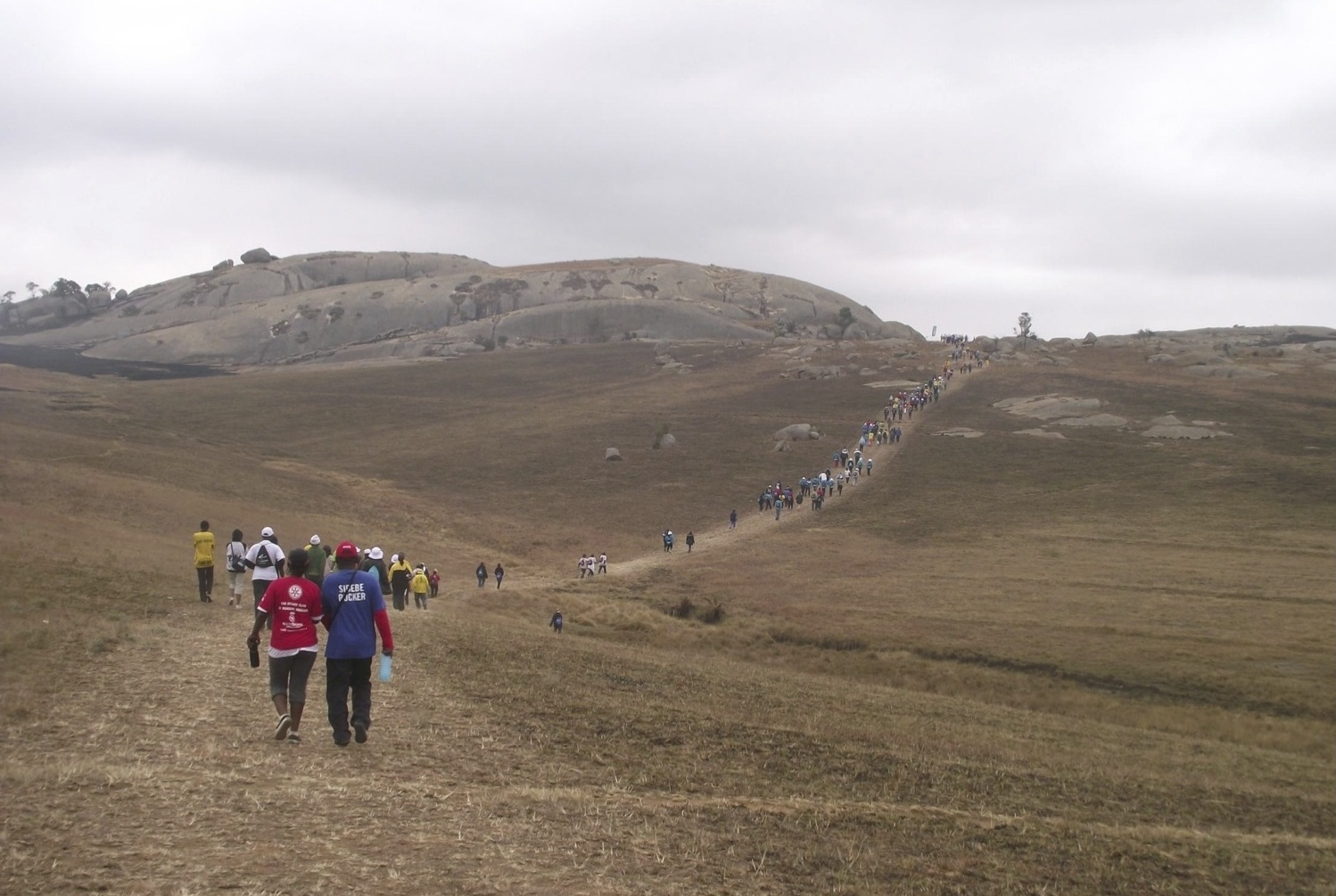 The runners/walkers going up Sibebe, a granite mountain in Swaziland.